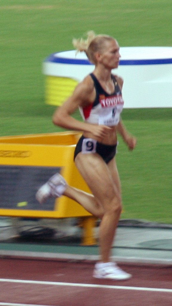 World Athletics Championships 2007 in Osaka - Lilly Schwarzkopf in the concluding 800 metres race of the women's heptathlon